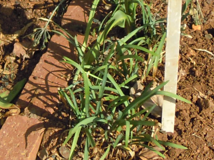 Pernicious weeds growing in plant beds